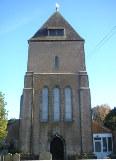 The west tower at St Margaret's Church, Ifield, Crawley, England, showing the triple lancet windows.